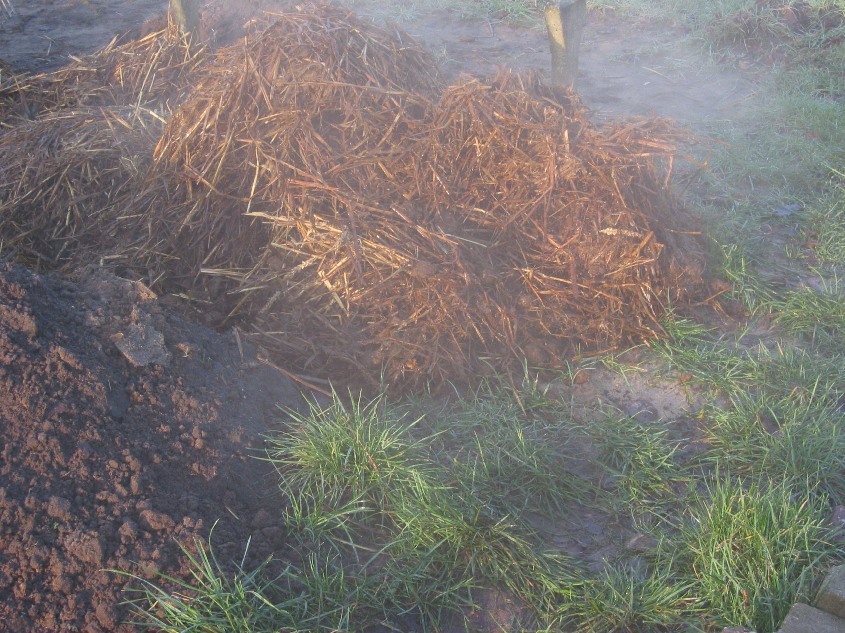 Horse manure